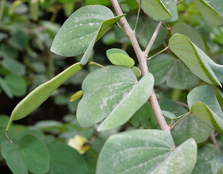 Yellow Bauhinia,Yellow Bell Orchid Tree, Vanasampige, Tiruvatti or Kolakattai mandarai Bauhinia tomentosa in Hyderabad , India.